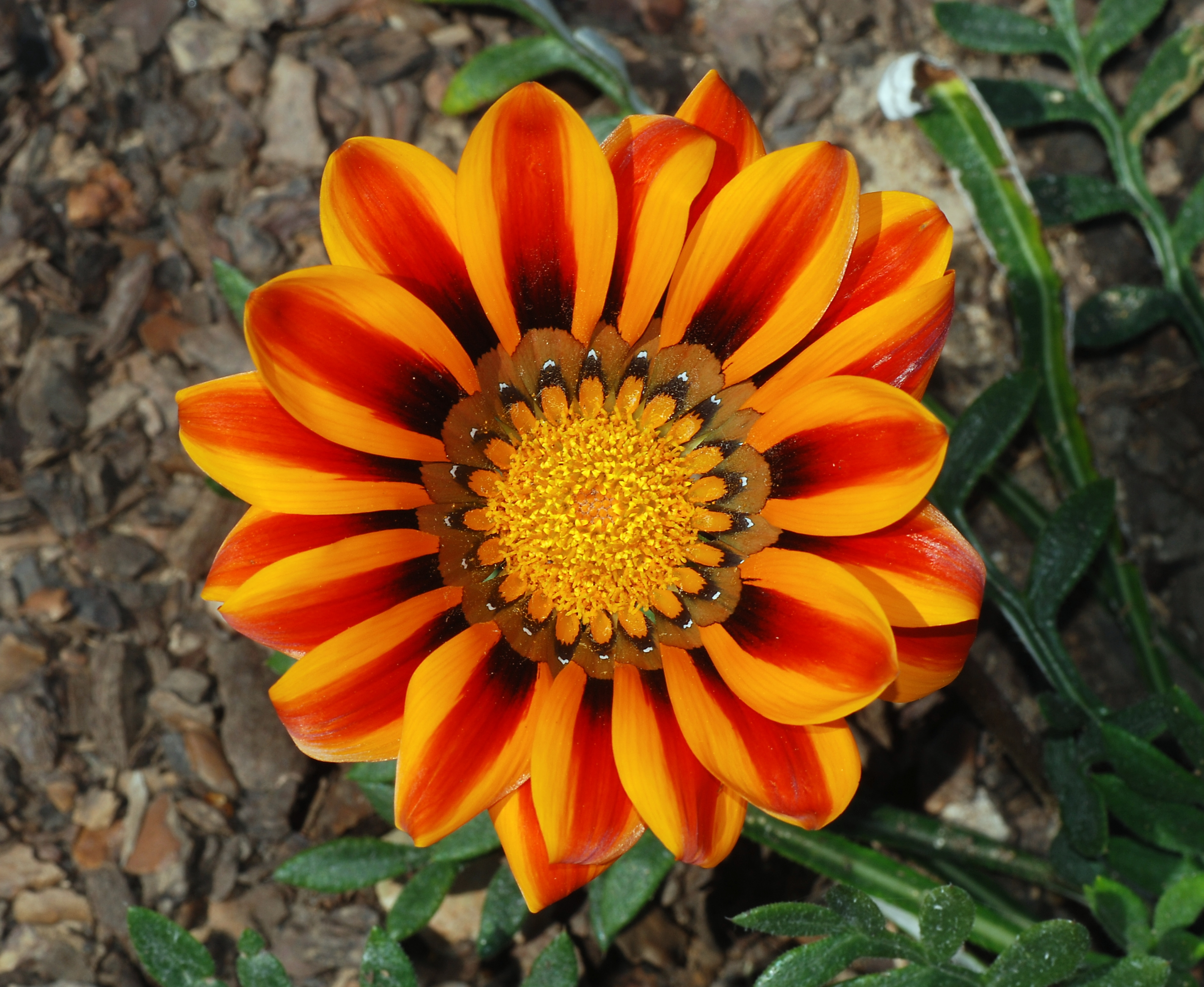 A flower of a Gazania cultivar